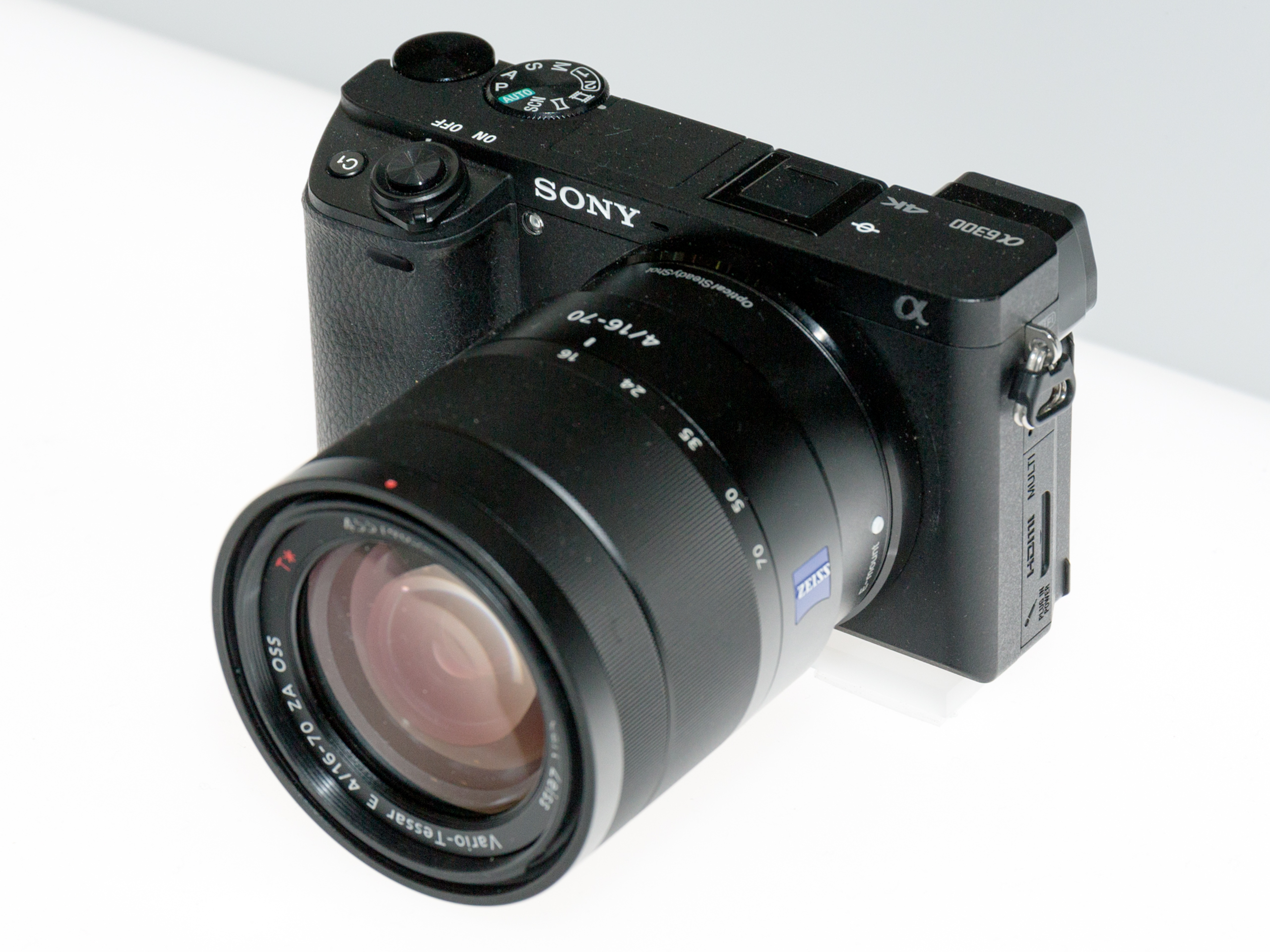 CP+ 2017: 2016 Sony Alpha 6300 (ILCE-6300)